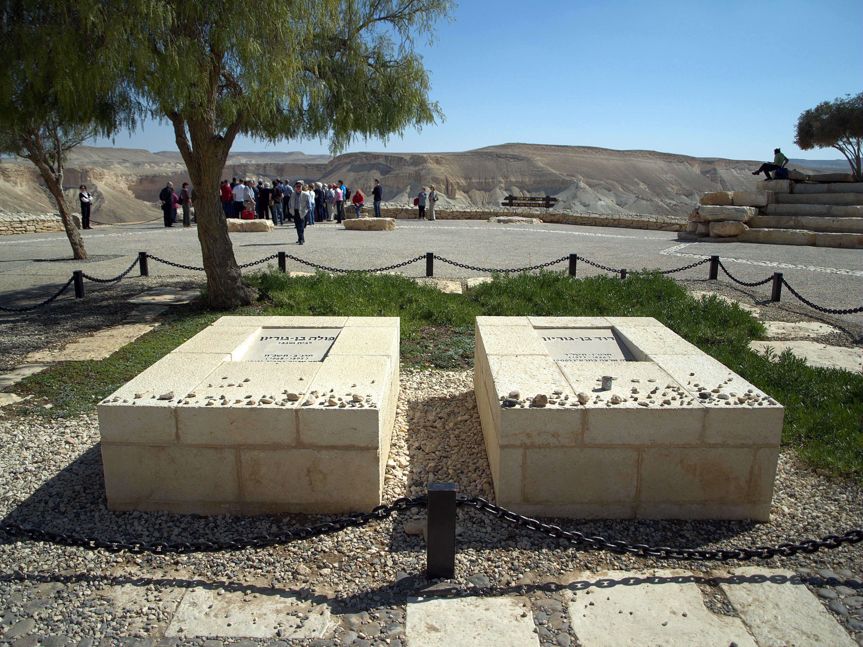 The graves of founder of the Israeli state, David Ben-Gurion and his wife, Paula Ben-Gurion in Midreshet Ben-Gurion, in the Negev Desert, Israel.